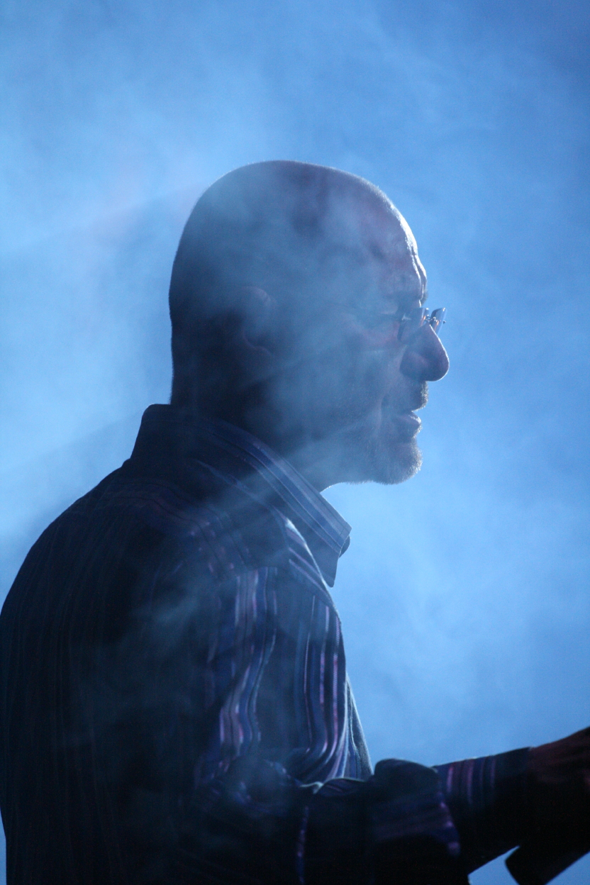 Siavash Ghomeishi concert Kuala lumpur 2009